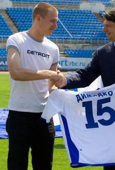 Russian football player Alexandr Dimidko in Dynamo Moscow.